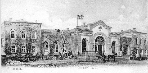 Postcard. Station in Roslavl. (1900 - 1904)